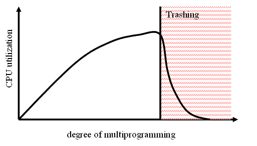 Thrashing